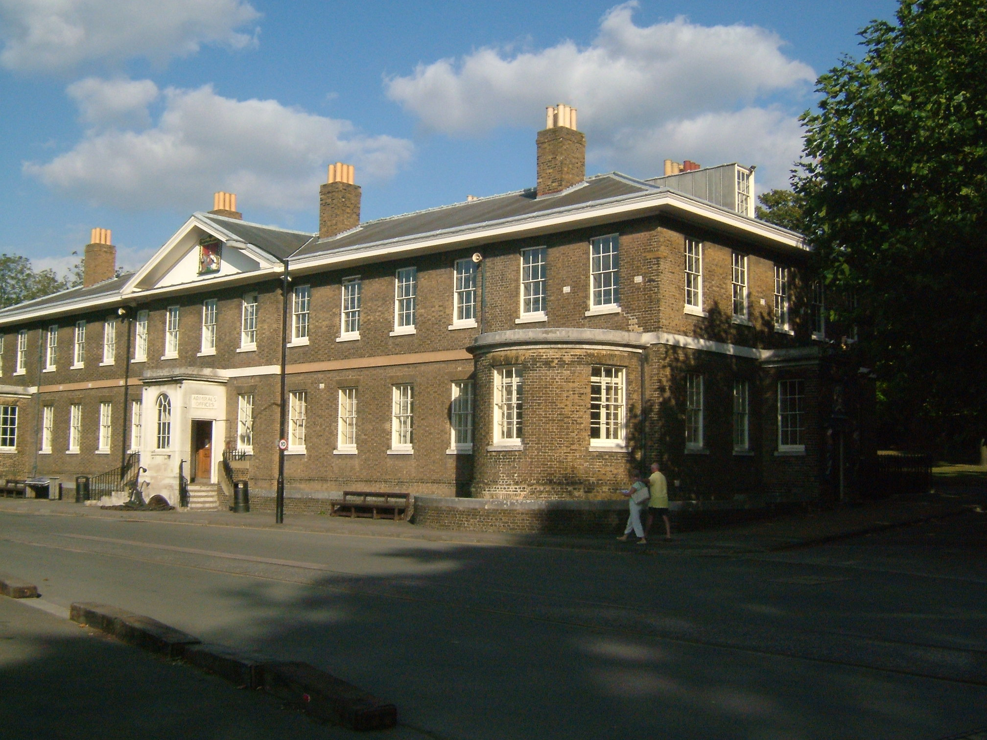 Chatham Dockyard, Kent,England has the finest collection of 18th and 19th century naval dockyard buildings many of which are scheduled as ancient monuments. The Admiral's Offices. Built in 1808, by Edward Holl. - OpenStreetMap(Info)